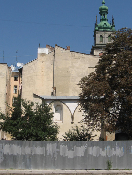 Golden Rose Synagogue in Lviv